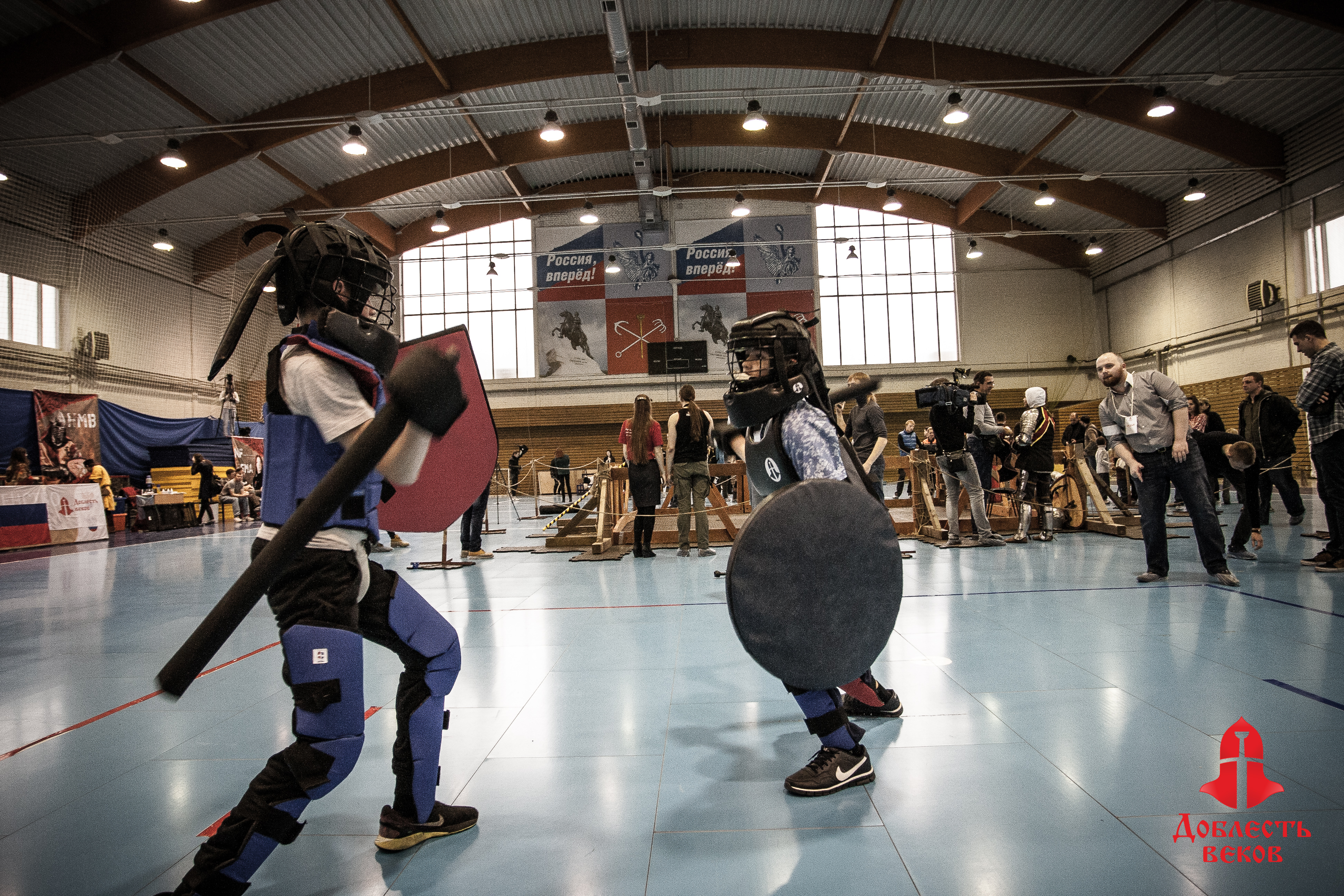 HMB Soft